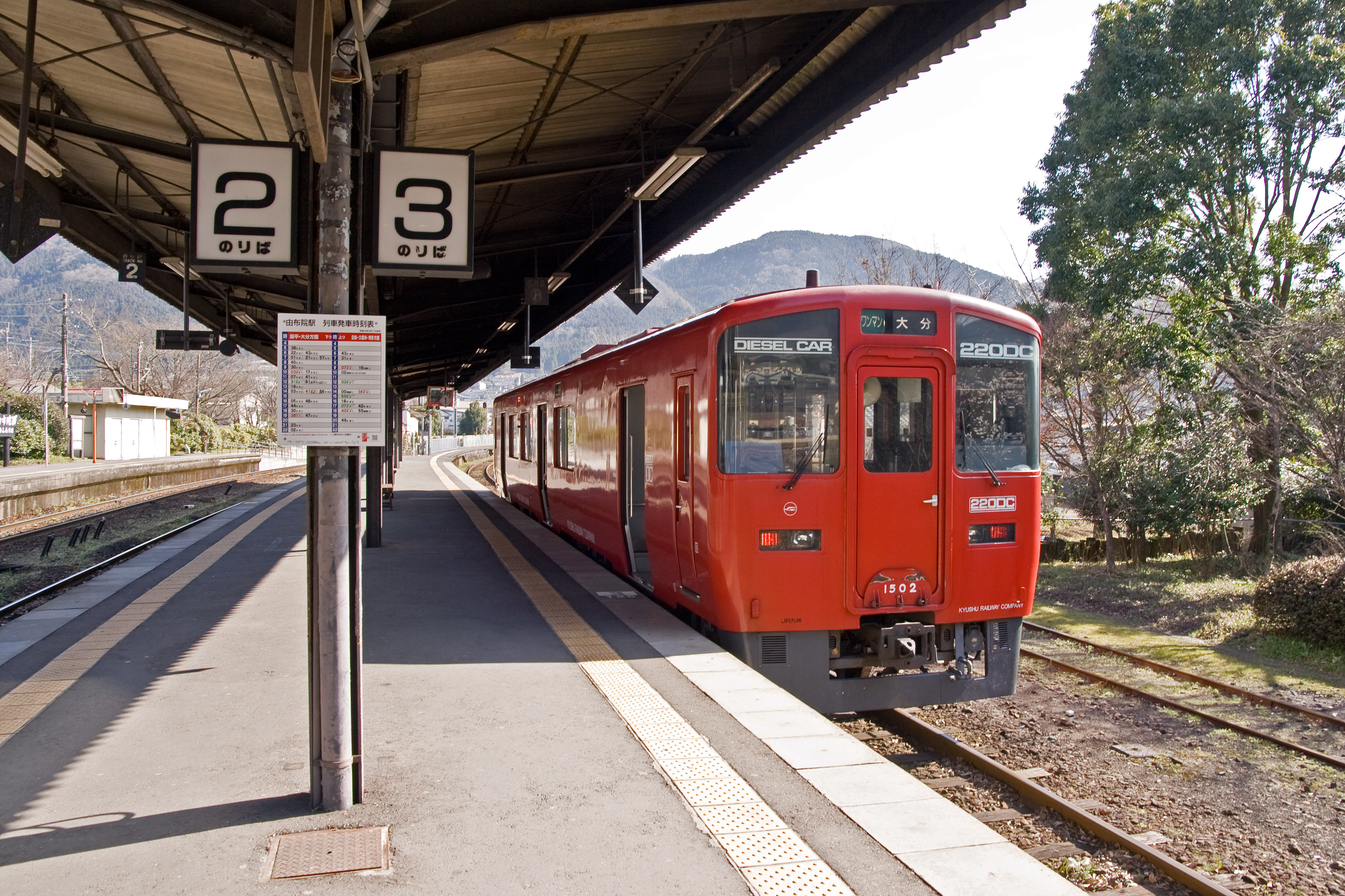 Yufuin Station, Yufu City, Oita Pref., Japan.